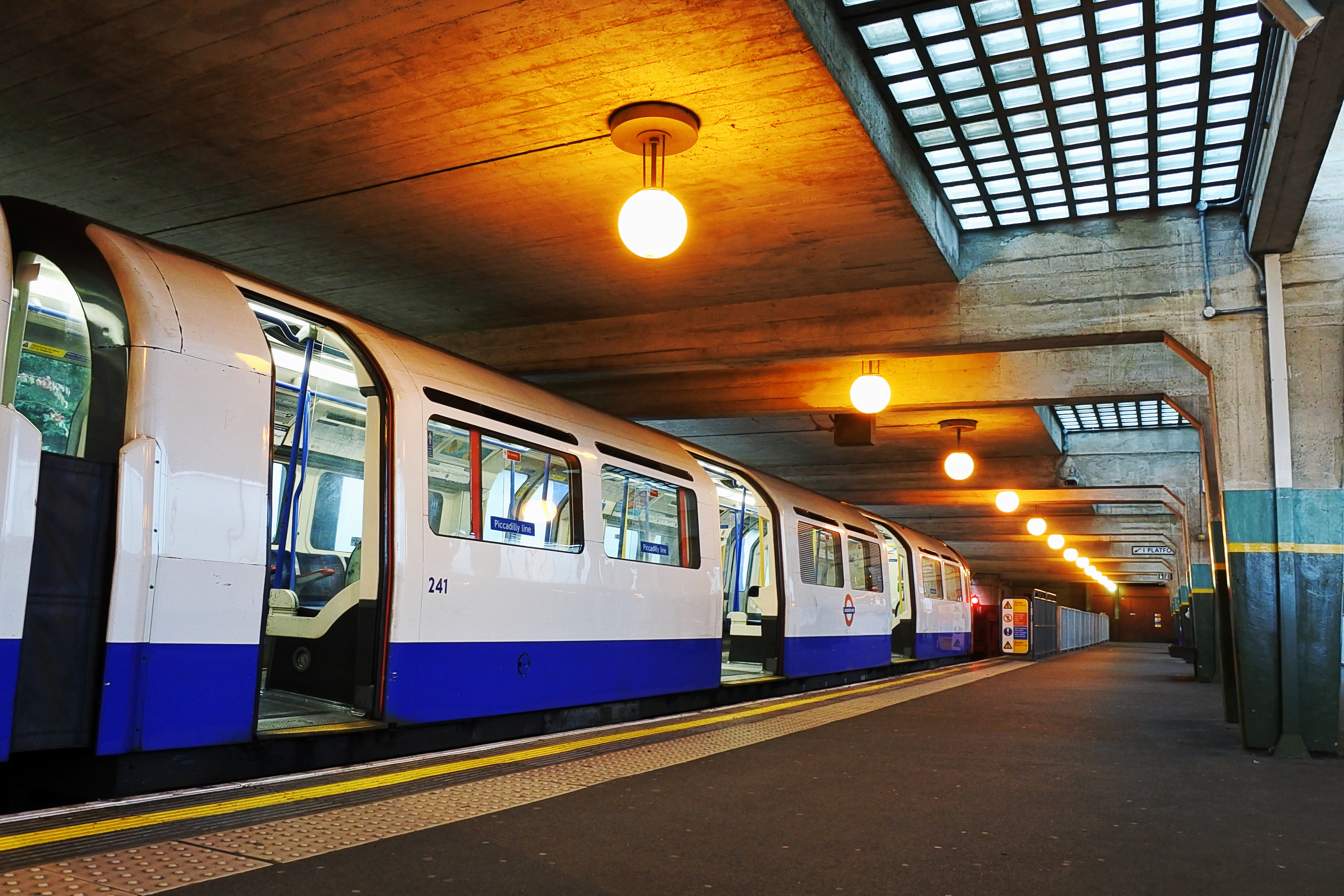 First/final stop on the Piccadilly Line on the London Underground.